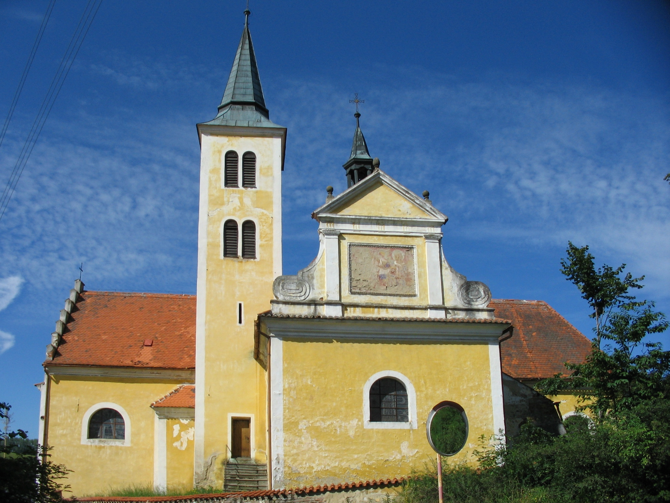 Saint Lawrence church in Kraselov, Strakonice District, Czech Republic